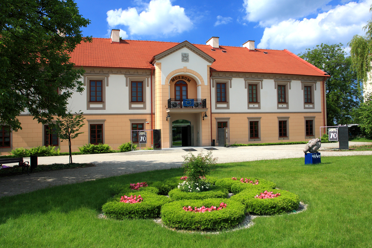 The Local Museum of Stalowa Wola